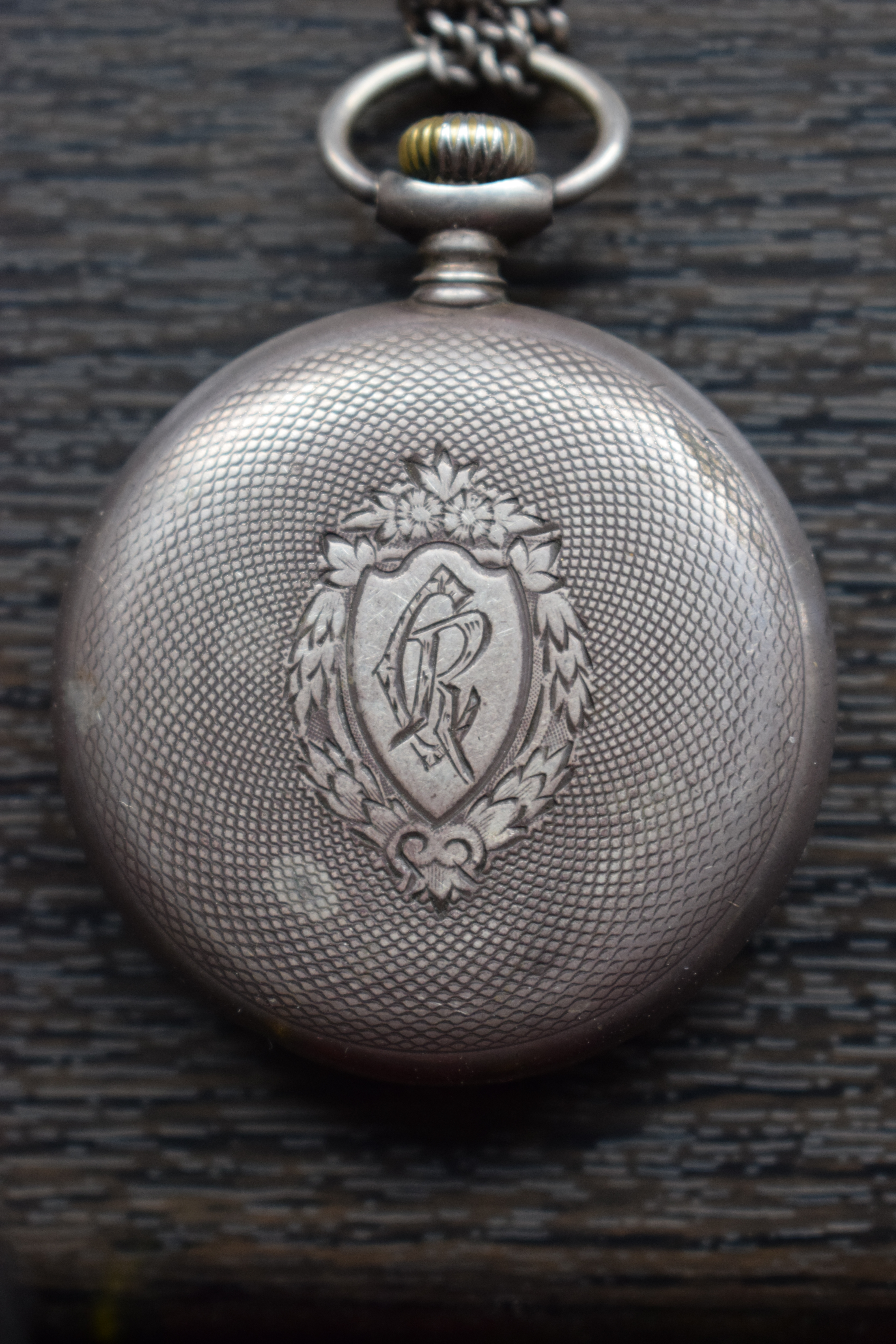 The silver-made Omega pocket watch presented by General Henri Berthelot to Father Constantin I. Roșescu, a Romanian Orthodox priest and teacher from Iași, that became his friend during the WWI French campaign in Romania. The backplate is engraved with "CR", Roșescu's initials. Father Roșescu served as a military confessor during WWI, participating to battles.